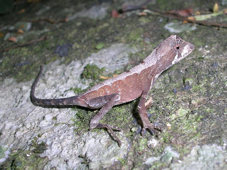 Otocryptis beddomii (Indian/Western Ghats Kangaroo Lizard) from the Dharbhakulam range of Shendurney wildlife sanctuary, Kollam district, Kerala, India.